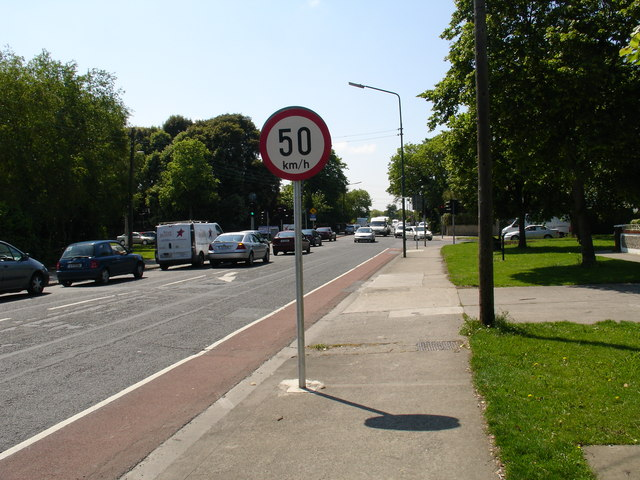 Brookwood Avenue & Howth Road A busy junction on the road to Dublin, and the freshly planted sign does have some significance. Unlike the UK, Ireland decided is was pointless buying fuel in litres, and showing road distances in kilometres, but the speed limits were in miles per hour! In 2005 it was decided to bite the bullet, and end this half-way house, gone were the limits of 30, 40, 50, 60 & 70 mph, and all the roads across the country were converted to metric speeds. Just so motorists couldn't say they forgot - these metric reminder signs were erected.